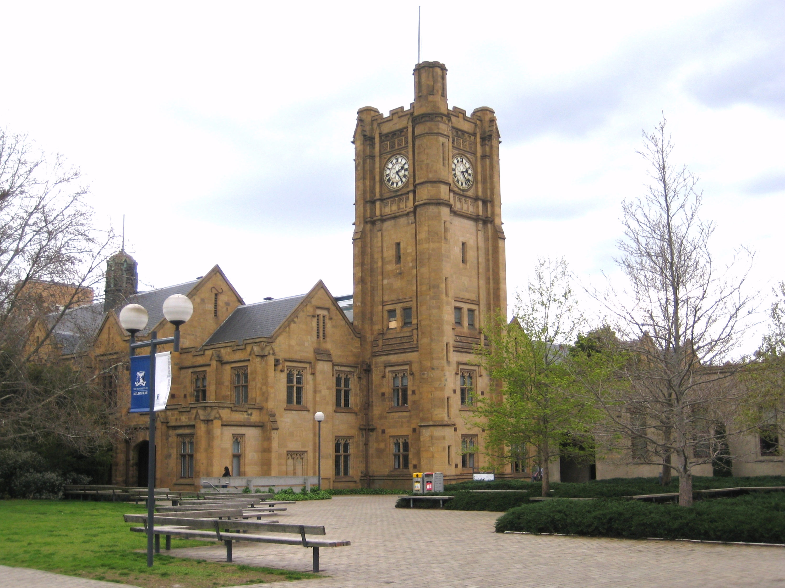 Old Arts Building (1919-1924) in Parkville Campus of University of Melbourne.